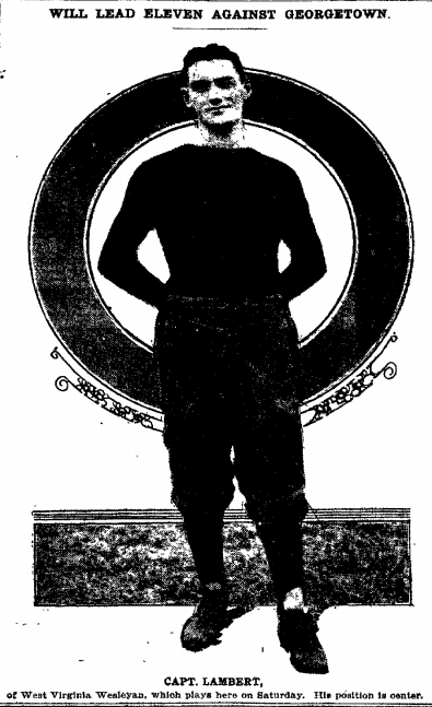 Photograph of Oscar Lambert